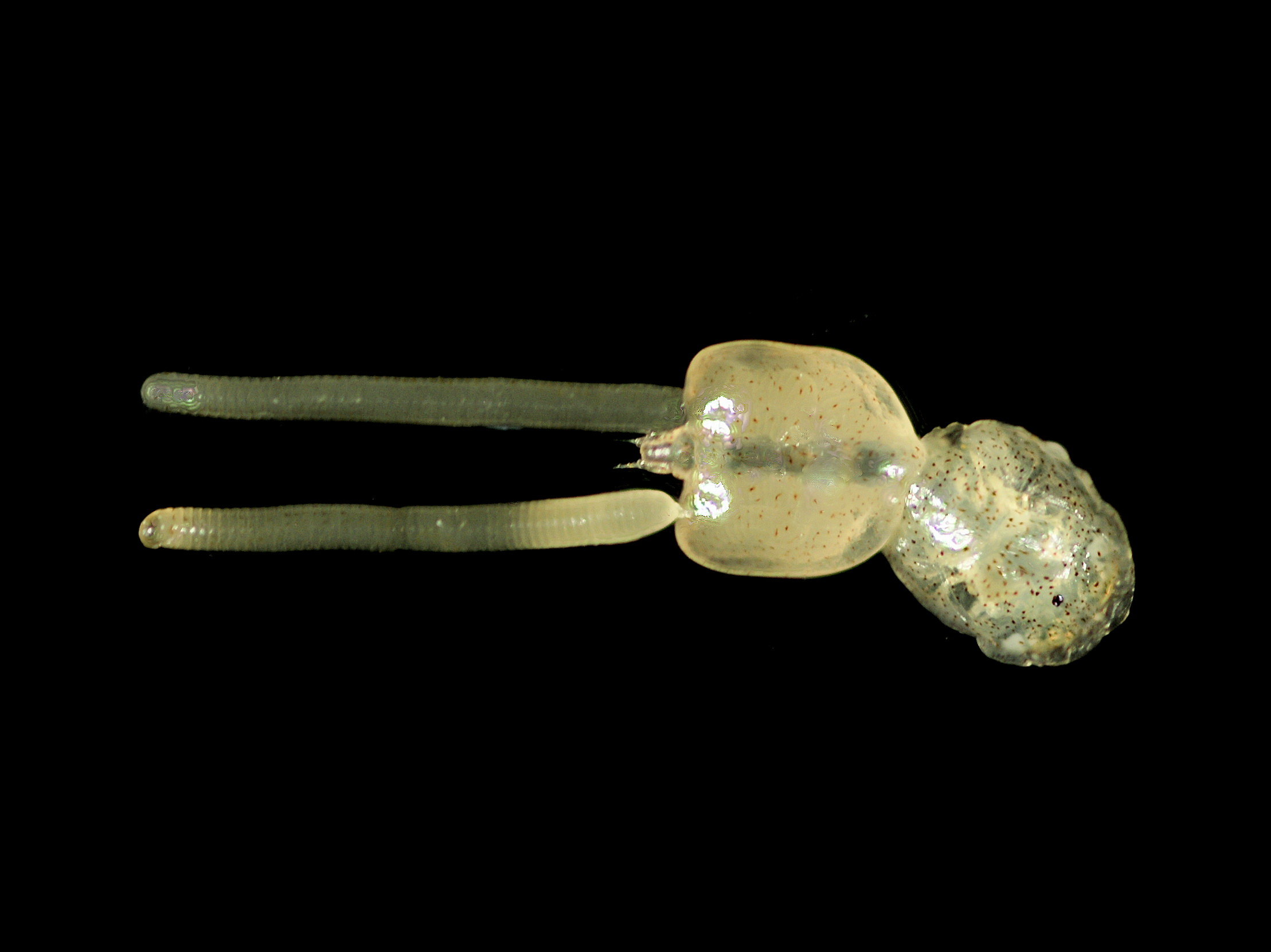 A parasitical copepod from underneath the pectoral fin of a Flounder (Platichthys flesus (L.)), from the Belgian part of the North Sea (Hinder Banks). Length approx. 7 mm.